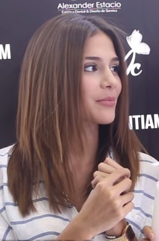 Greeicy Rendón in 2015